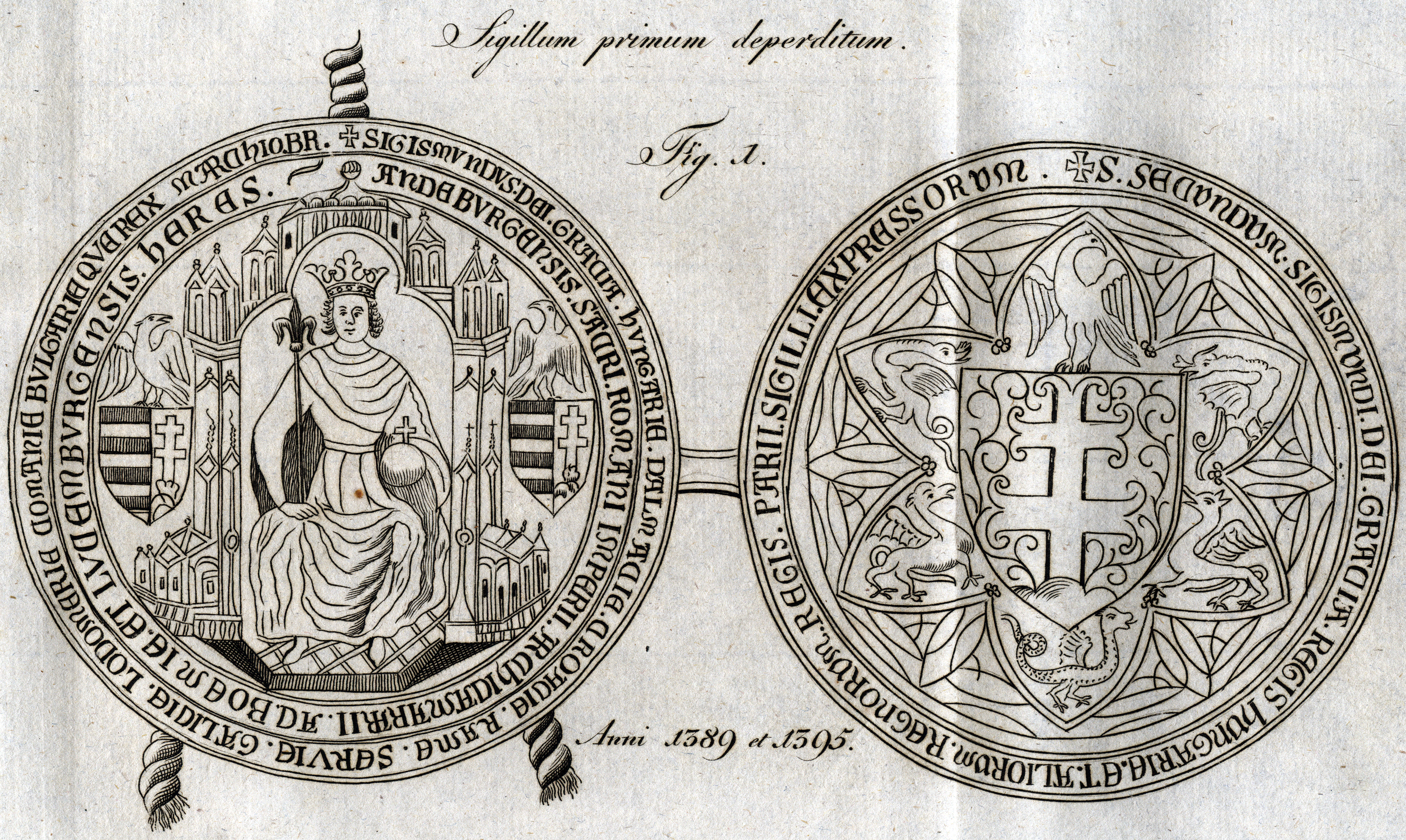 Seal of emperor Sigismund (used in 1389 and 1395) [unreliable drawing published 1805]